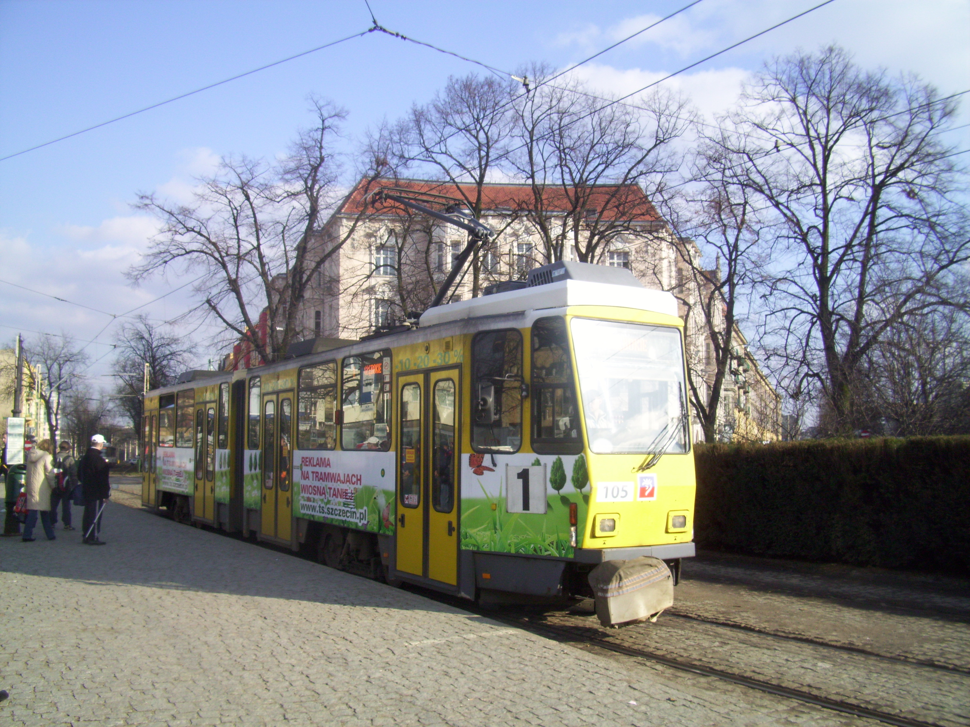 Tatra KT4 type tram in the streets of Szczecin.